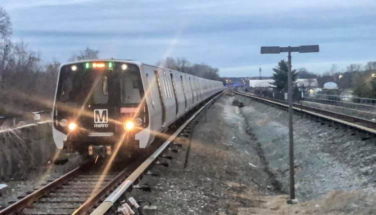 A train made up of Kawaski 7000 series arriving at College Park station on the Green Line